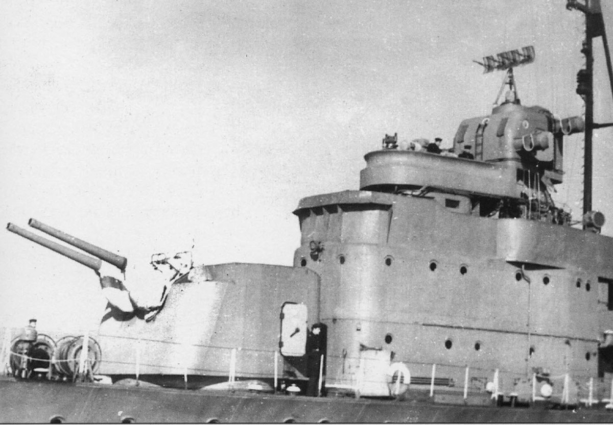 Soviet Destroyer destroyer Ognevoi, 1948.